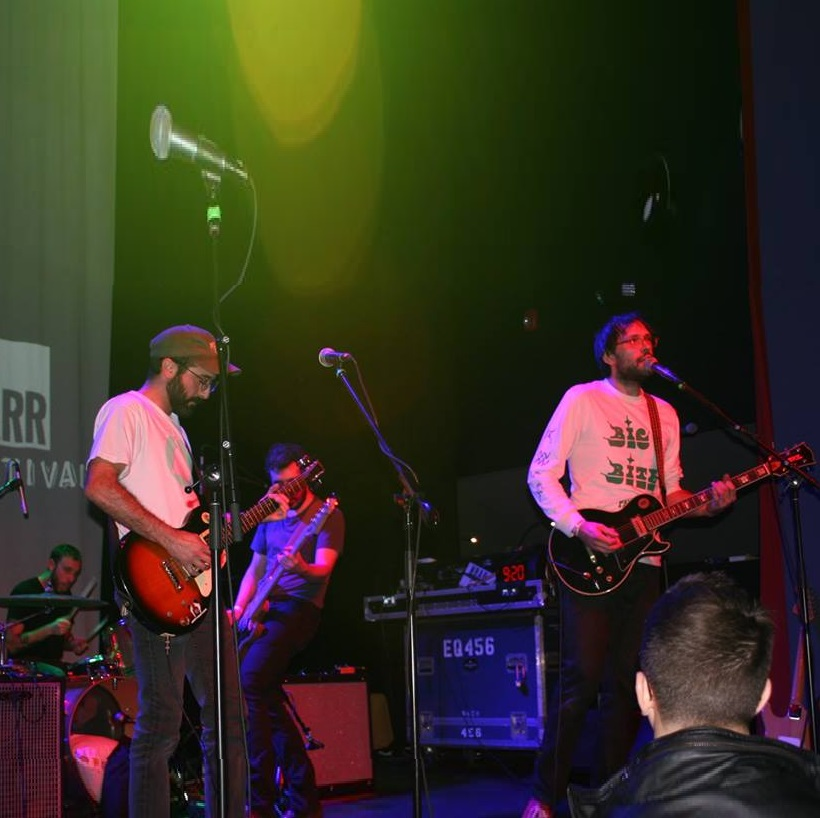 Glazer at the 2018 North Jersey Indie Rock Festival.